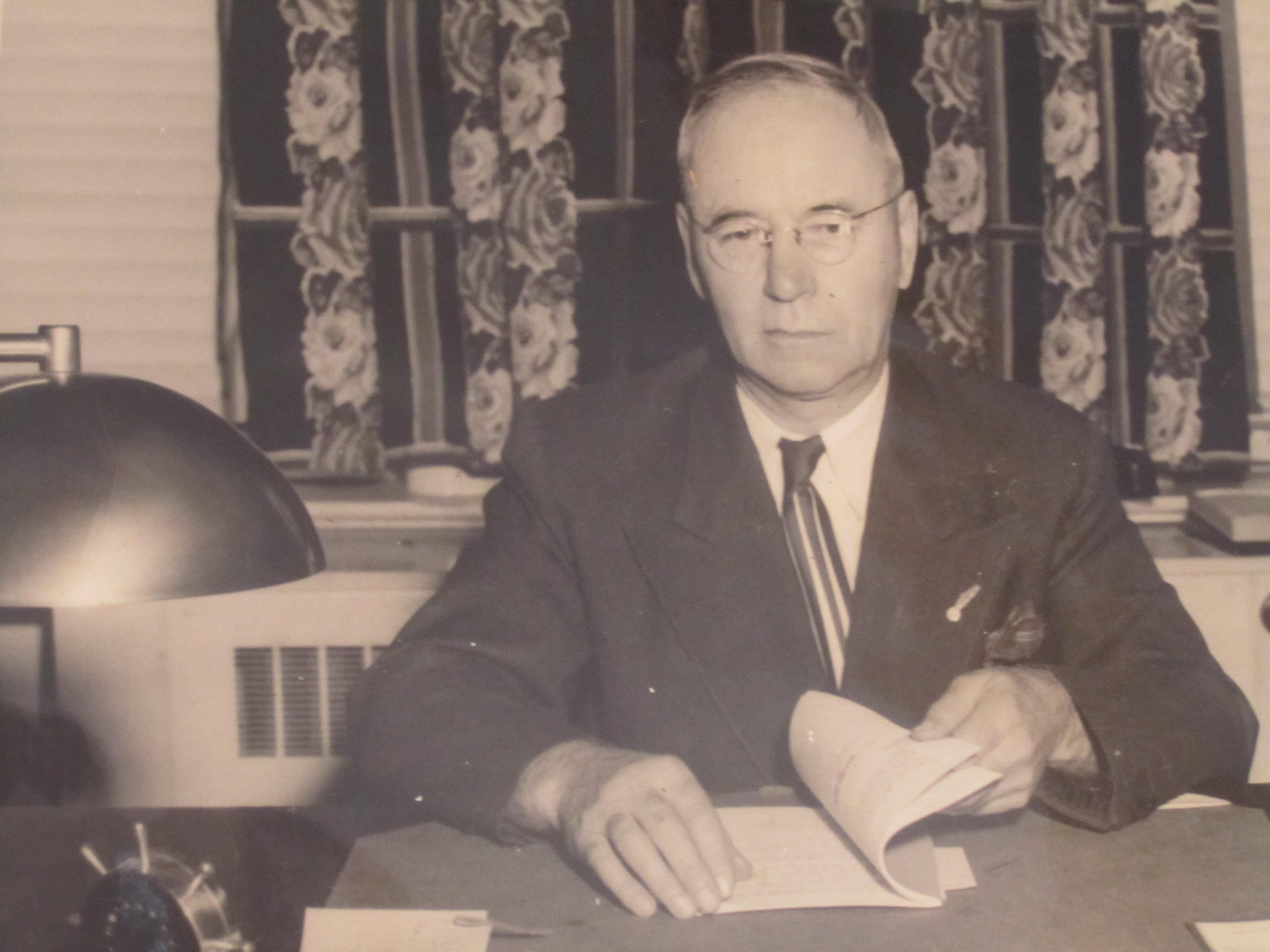 Garnet Menzies, Mayor of Regina, Saskatchewan 1948-1951